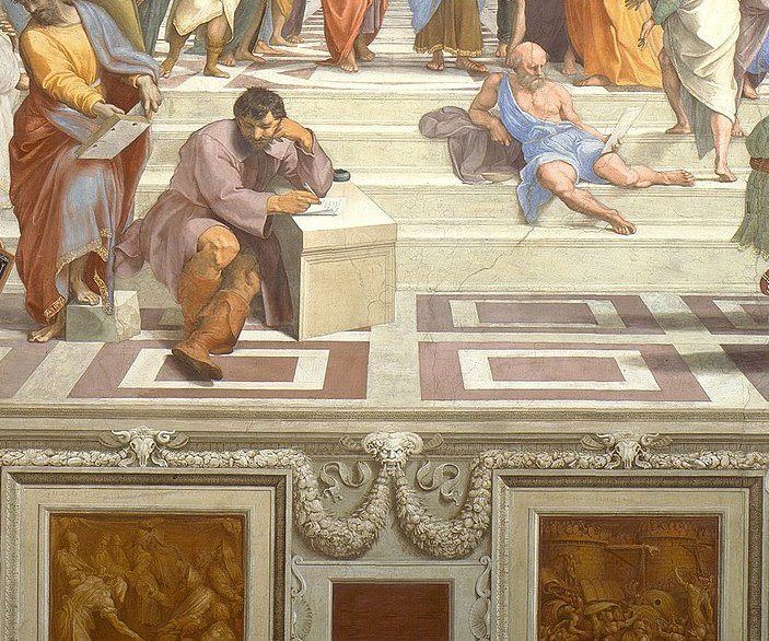 A cropped image to show the detailing in the floor within the painting